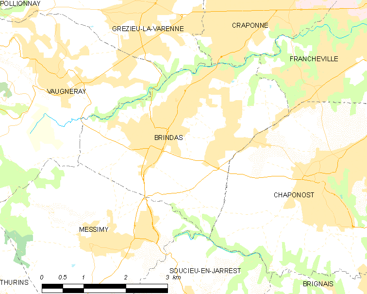 Map of French municipality